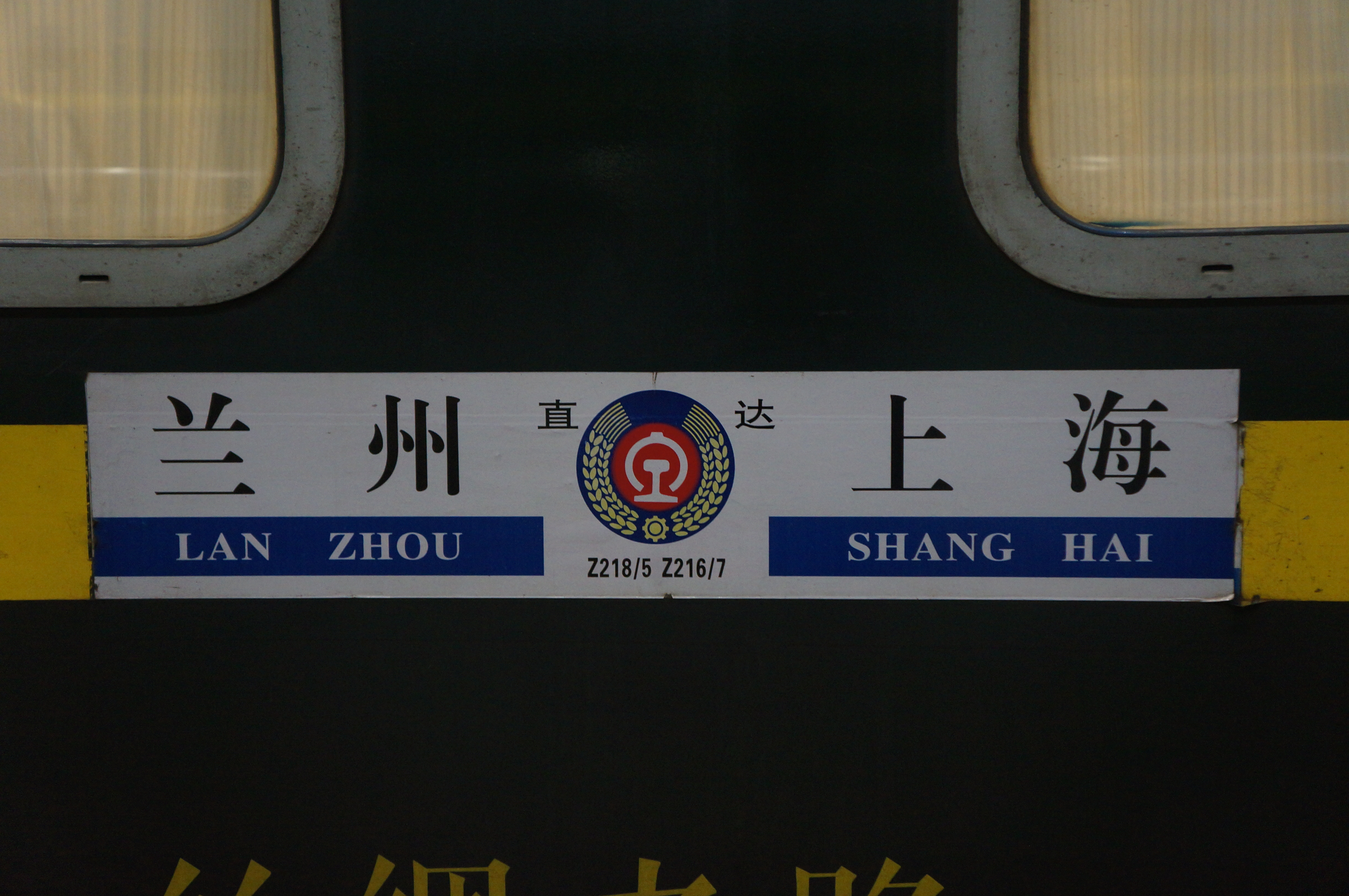 Z215 6 7 8 info board in 201702 without the Tourist Adv. Taken at SHA